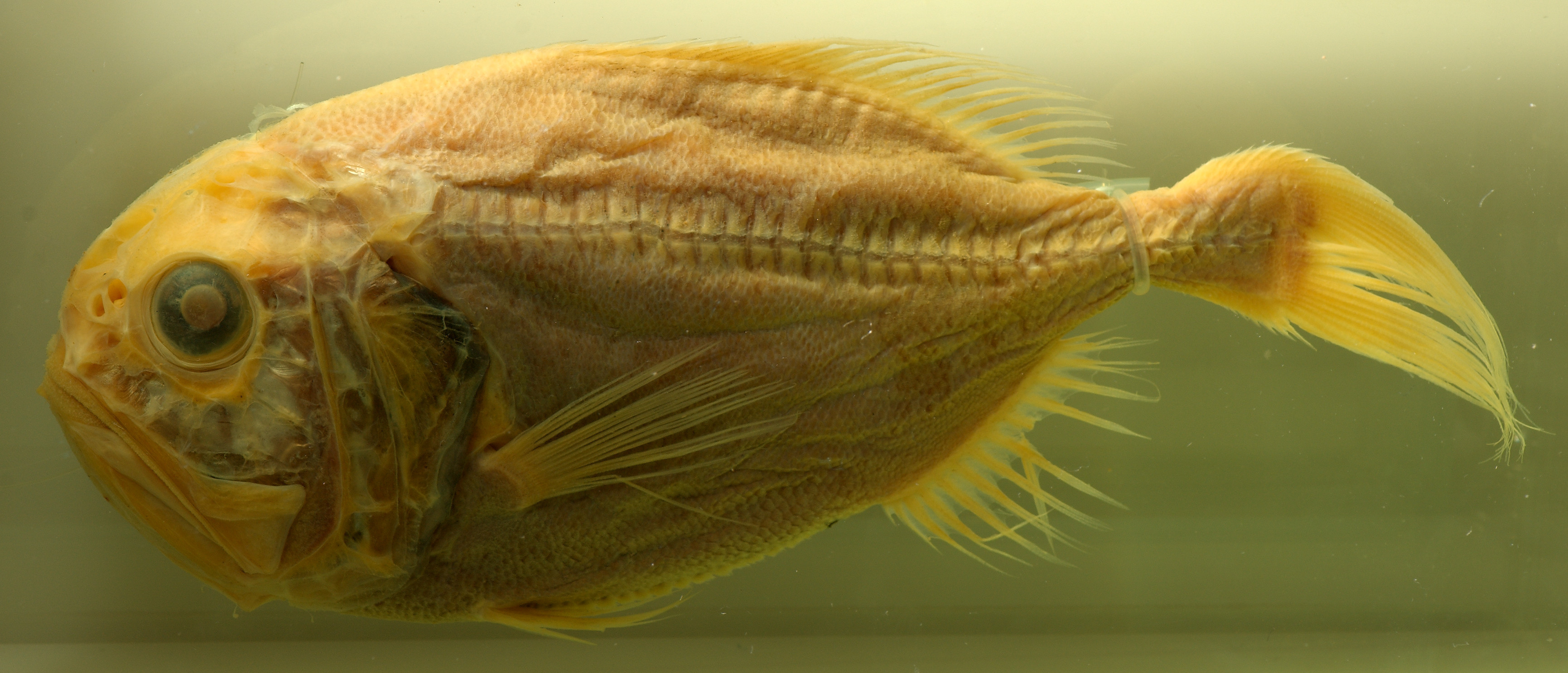 Orange Roughy (Hoplostethus atlanticus) specimen at Melbourne Museum.